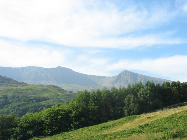 Approaching the forest above Llyn Gwernan